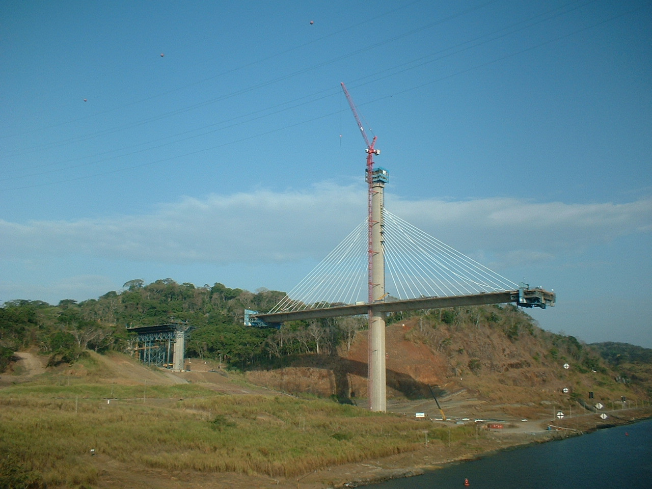 Panama Centennial bridge during construction in 2003